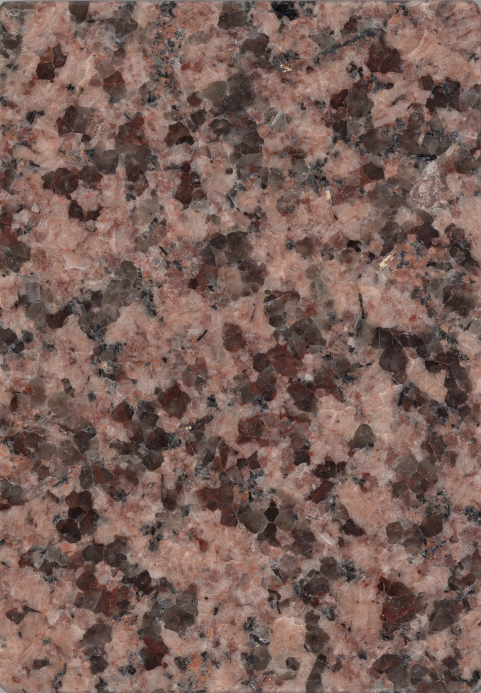 granite Meissen (Germany, Saxony)